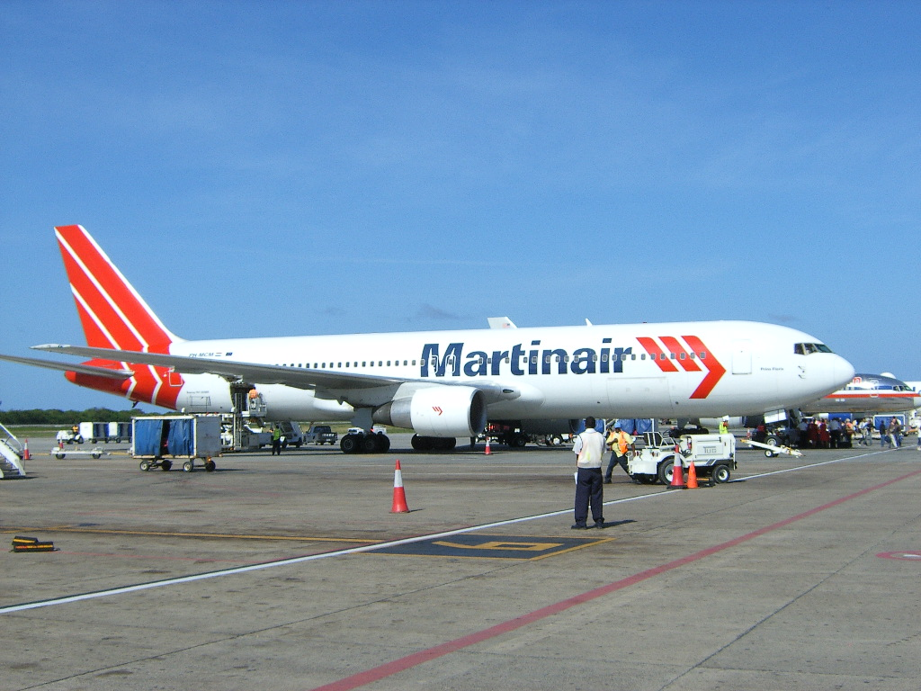 A picture of a Martinair Boeing 767-300ER (PH-MCM) parked at Punta Cana International Airport